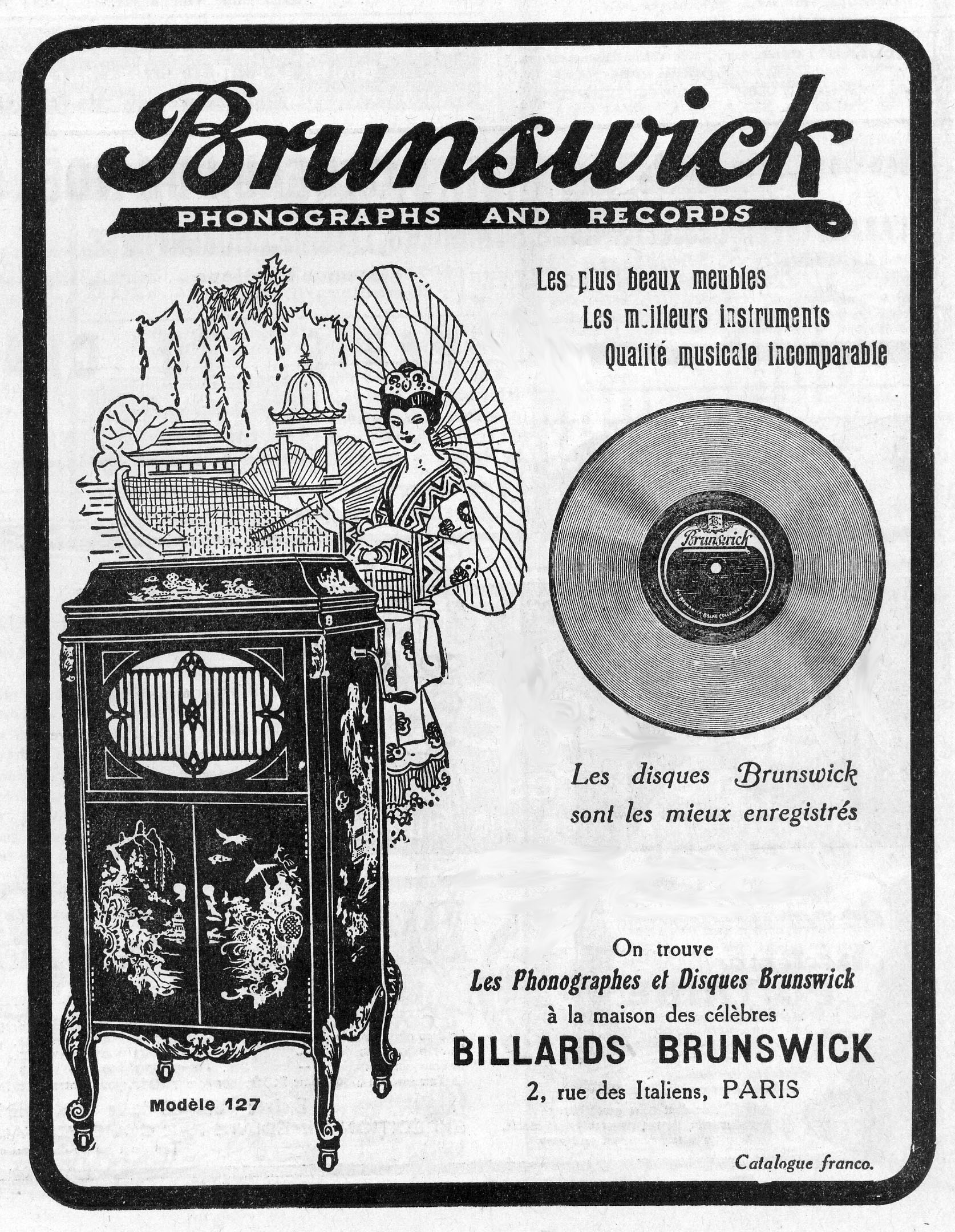 Brunswick phonographs and records advertisement of 1923